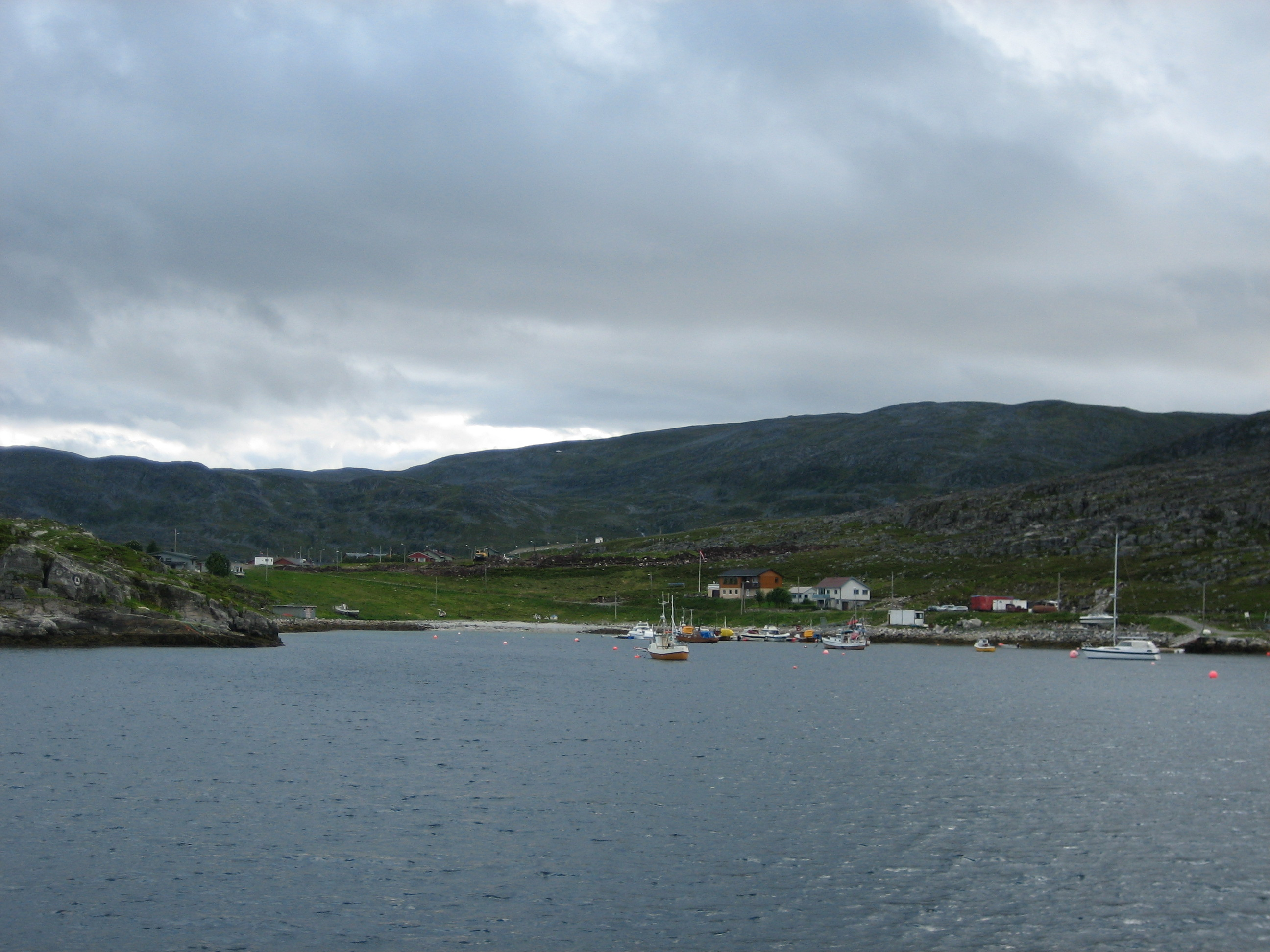 Harbour-view of the village of Forsøl in Hammerfest municipality, Norway